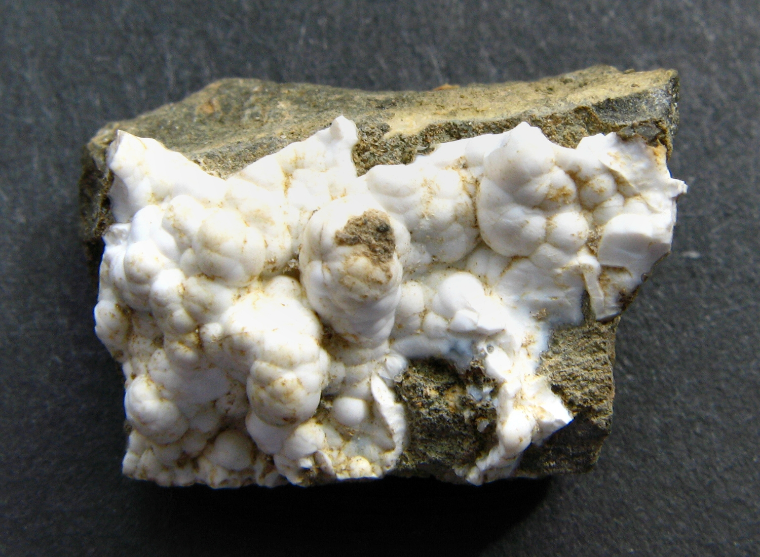 Gonnardite